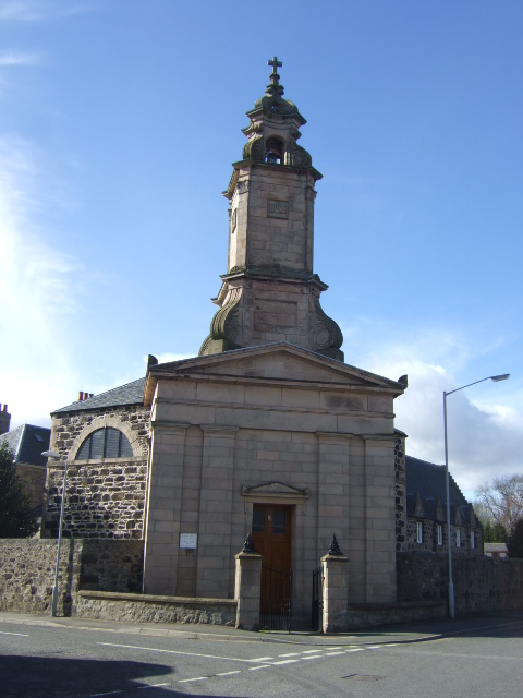 St Margaret's Church, Huntly Opened in 1834AD, and named for Queen Margaret of Scotland whose 900th centenary was celebrated in 1993.